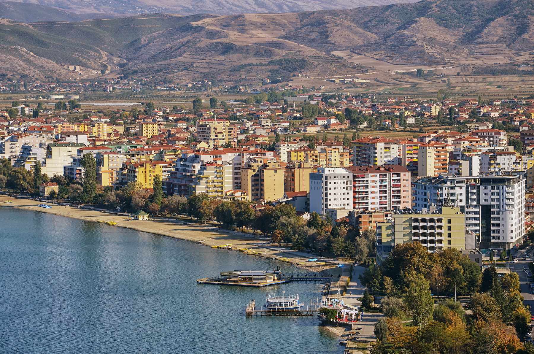 View of Pogradec, Albania from the Castle Hill (Kalaja)